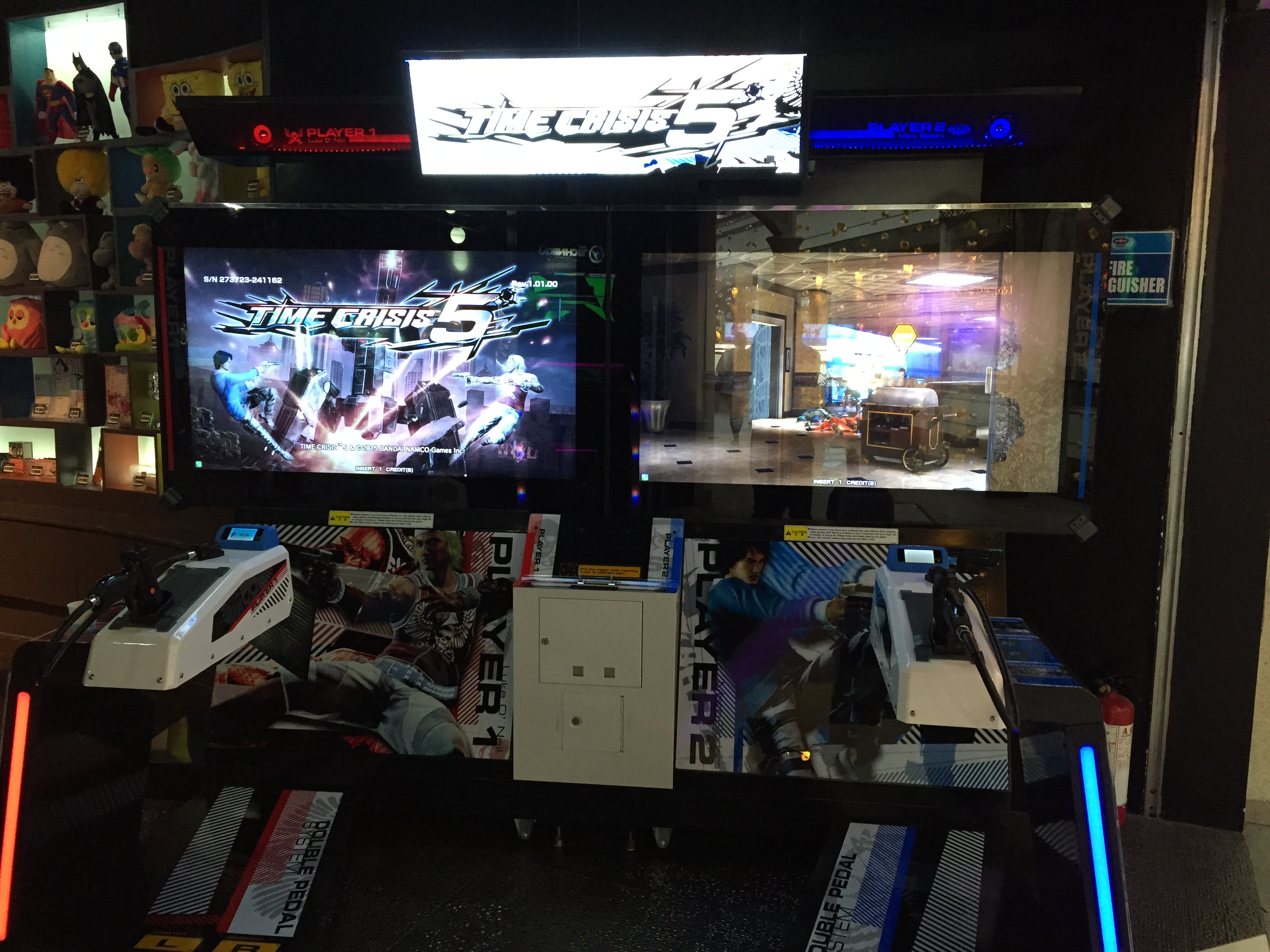 Time Crisis 5 Arcade Cabinet released officially in the Philippines in English. This machine is located in Timezone at the Power Plant Mall in Rockwell, Makati as of 2015. It is relocated to the entrance of the facility.